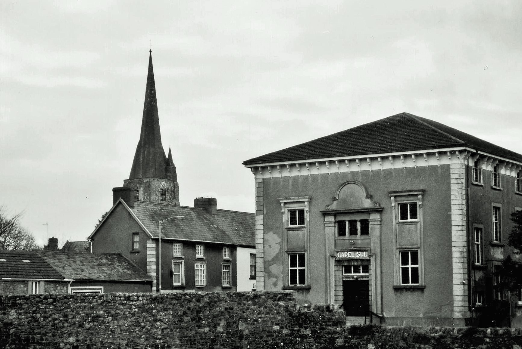 Taken in 1995. The chapel is affiliated to the Union of Welsh Independents